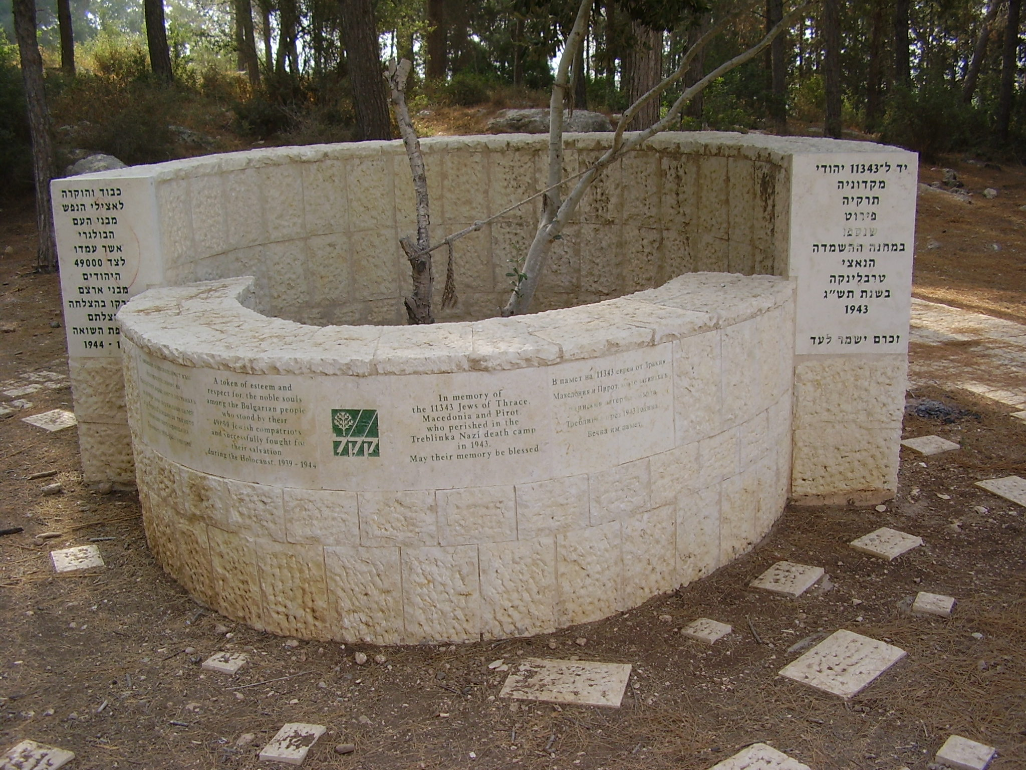 Holocaust memorial to Bulgarian Jews in Israel.